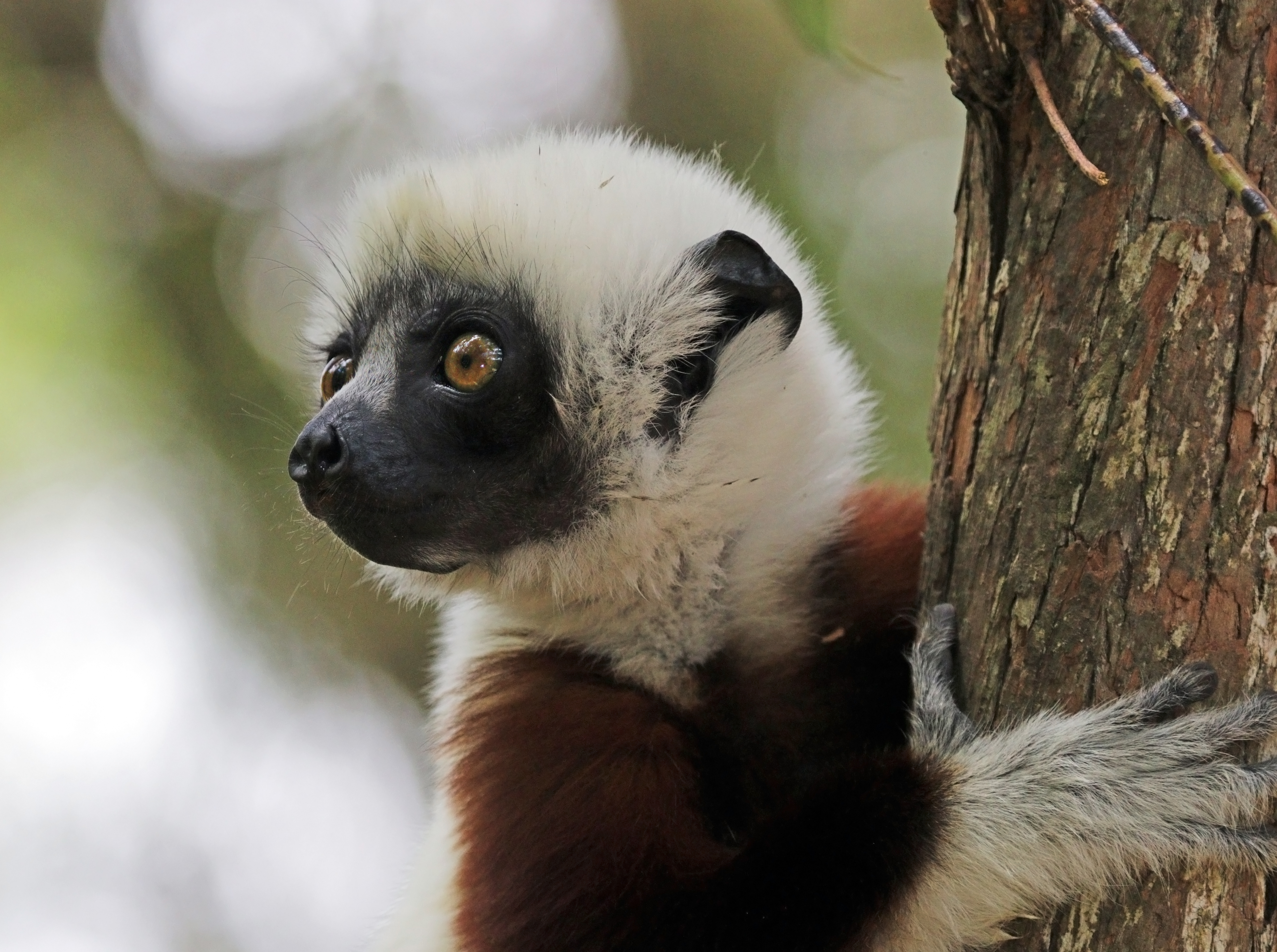 Coquerel's sifaka (Propithecus coquereli), Peyrieras Nature Reserve, Madagascar. These are wild, but habituated and introduced from another part of Madagascar.